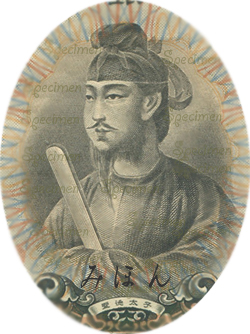 Shotoku Taishi on banknote (BOJ Series C 5000YEN)